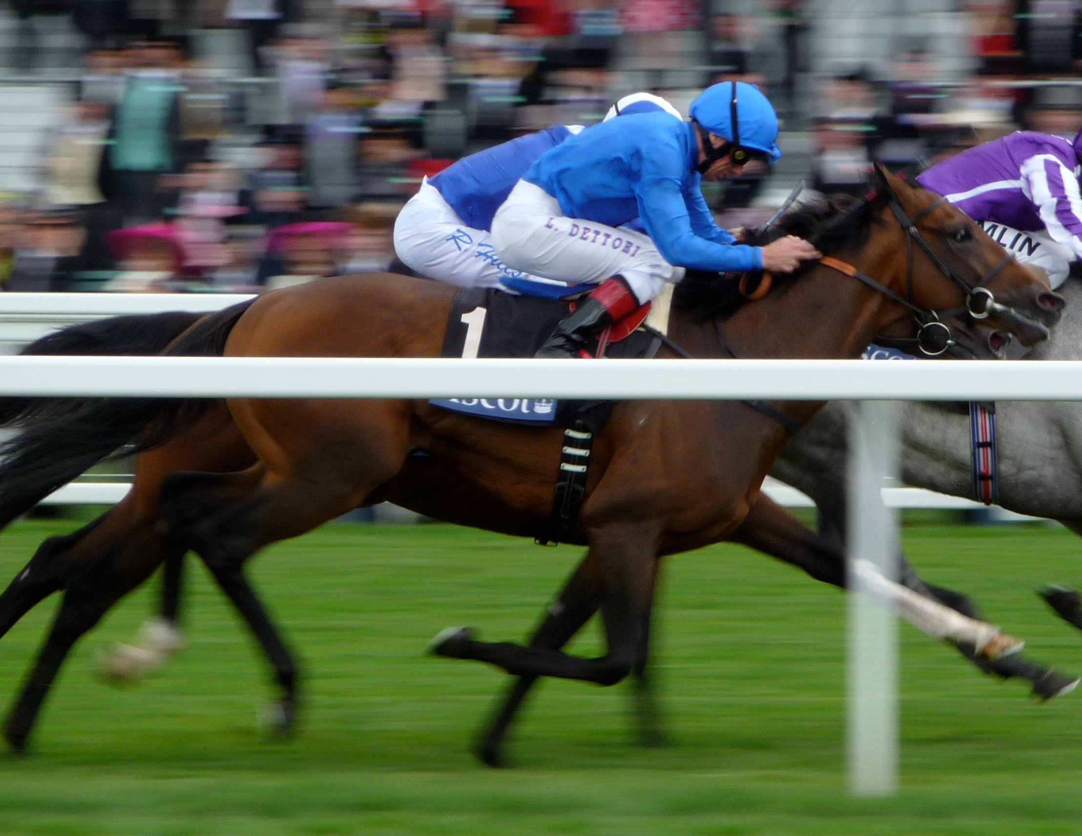 Mastery (#1) and Yankee Doodle (grey horse) at 2009 Queen's Vase run at Ascot Racecourse.